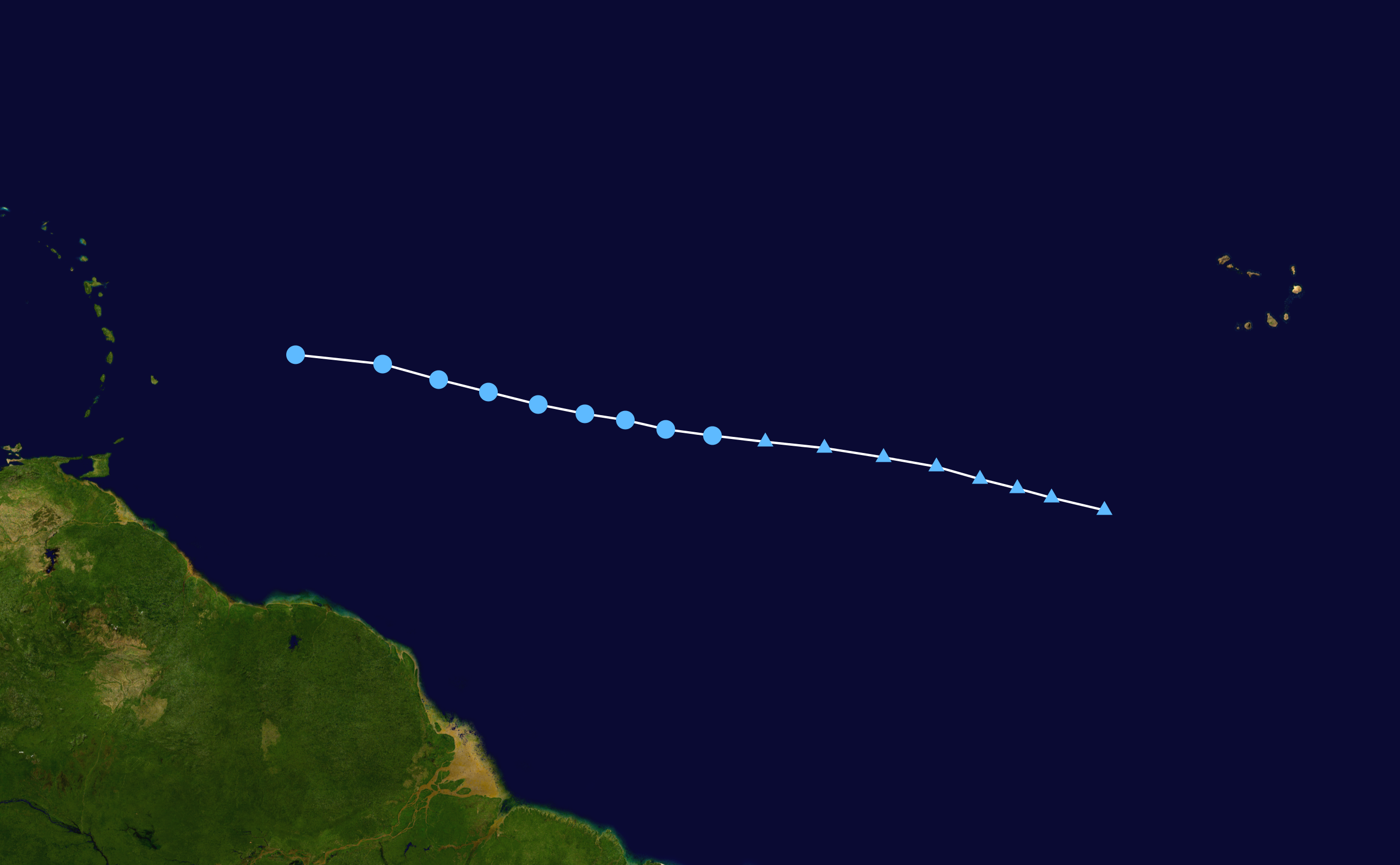 Track map of Tropical Depression Two of the 2014 Atlantic hurricane season. The points show the location of the storm at 6-hour intervals. The colour represents the storm's maximum sustained wind speeds as classified in the Saffir–Simpson scale (see below), and the shape of the data points represent the nature of the storm, according to the legend below. Saffir–Simpson scale Tropical depression≤38 mph≤62 km/h Category 3111–129 mph178–208 km/h Tropical storm39–73 mph63–118 km/h Category 4130–156 mph209–251 km/h Category 174–95 mph119–153 km/h Category 5≥157 mph≥252 km/h Category 296–110 mph154–177 km/h Unknown Storm type Tropical cyclone Subtropical cyclone Extratropical cyclone / Remnant low / Tropical disturbance / Monsoon depression